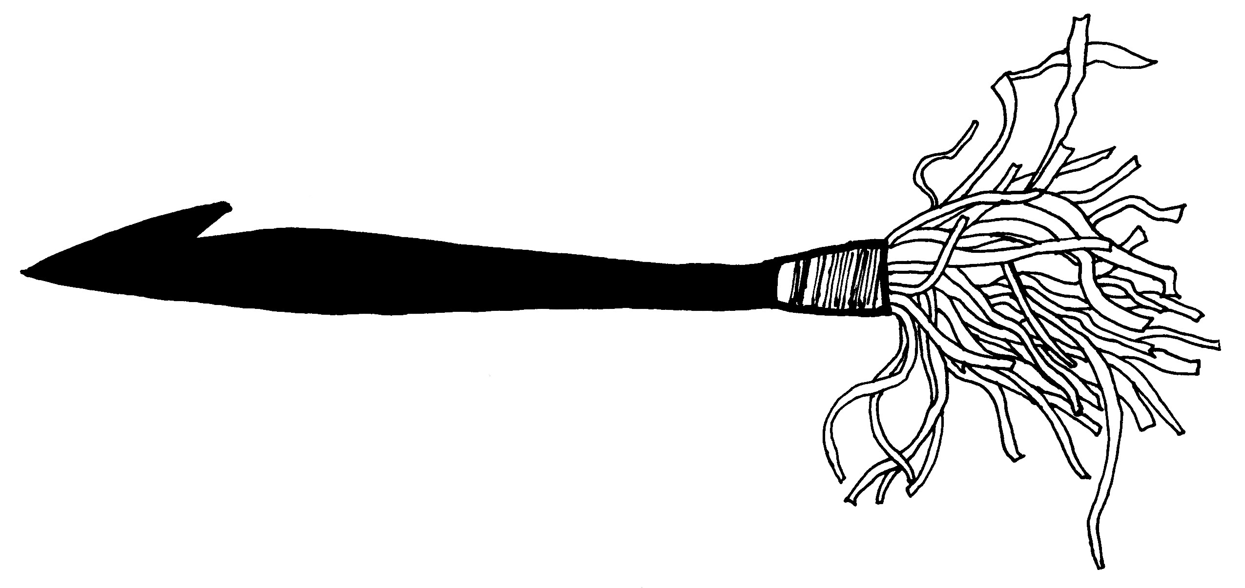 A rama ambon, a home made dart, which is shot with a slingshot from Dili/East Timor, Sth. around 15 cm